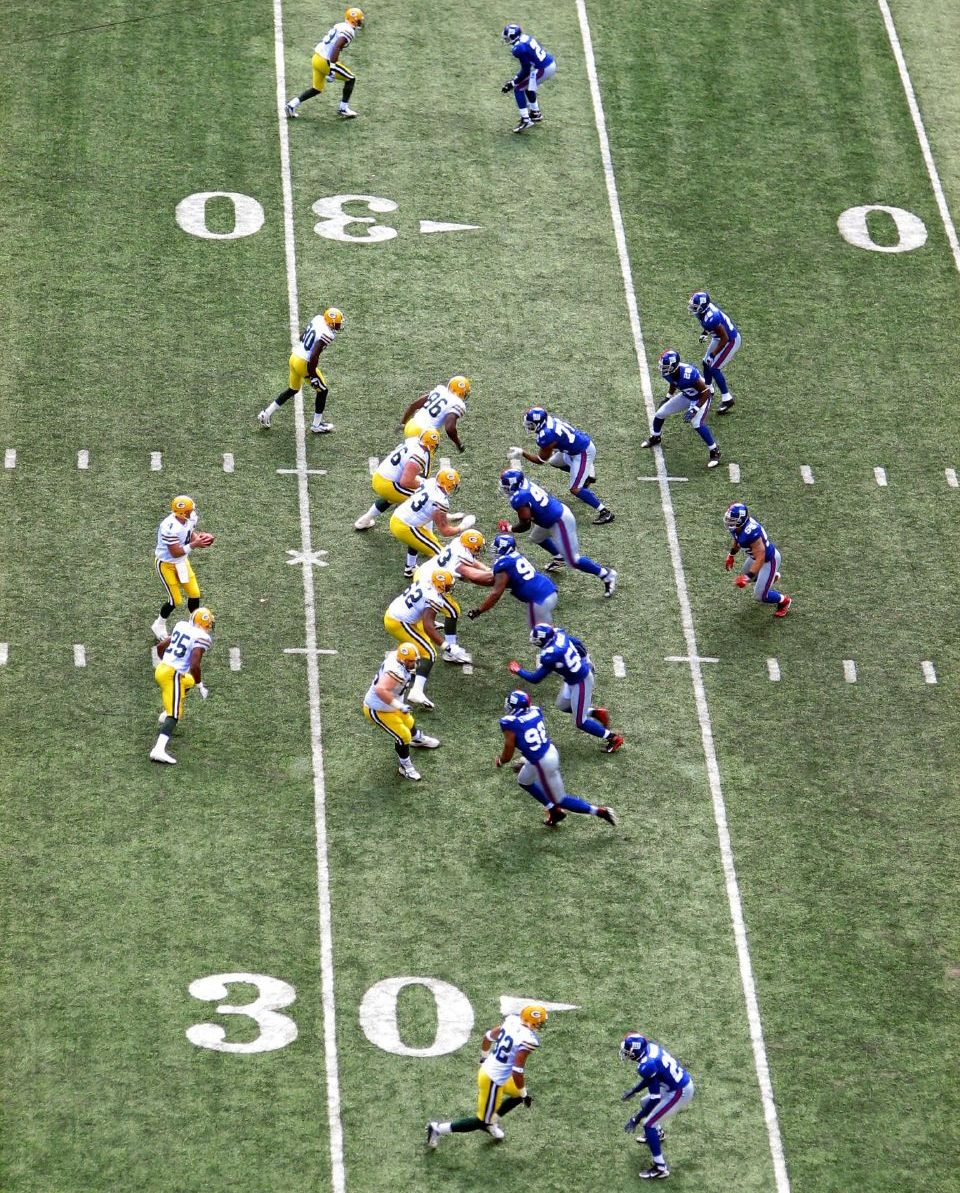 The NFL Green Bay Packers in the shotgun formation against the New York Giants on September 16, 2007.